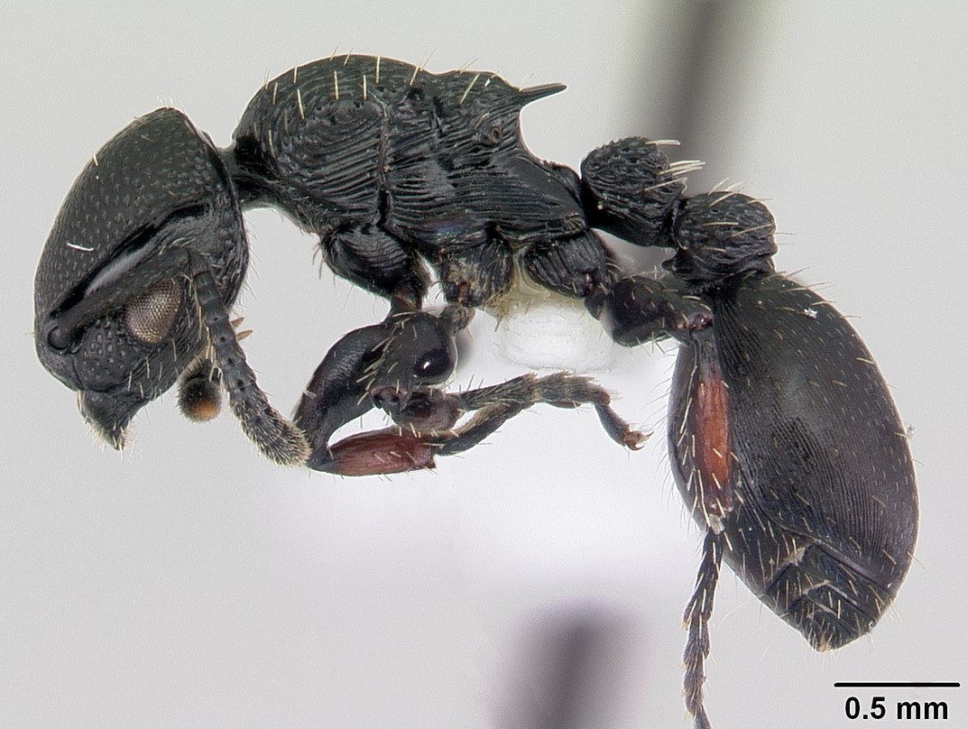 Profile view of ant Procryptocerus hylaeus specimen casent0178095.